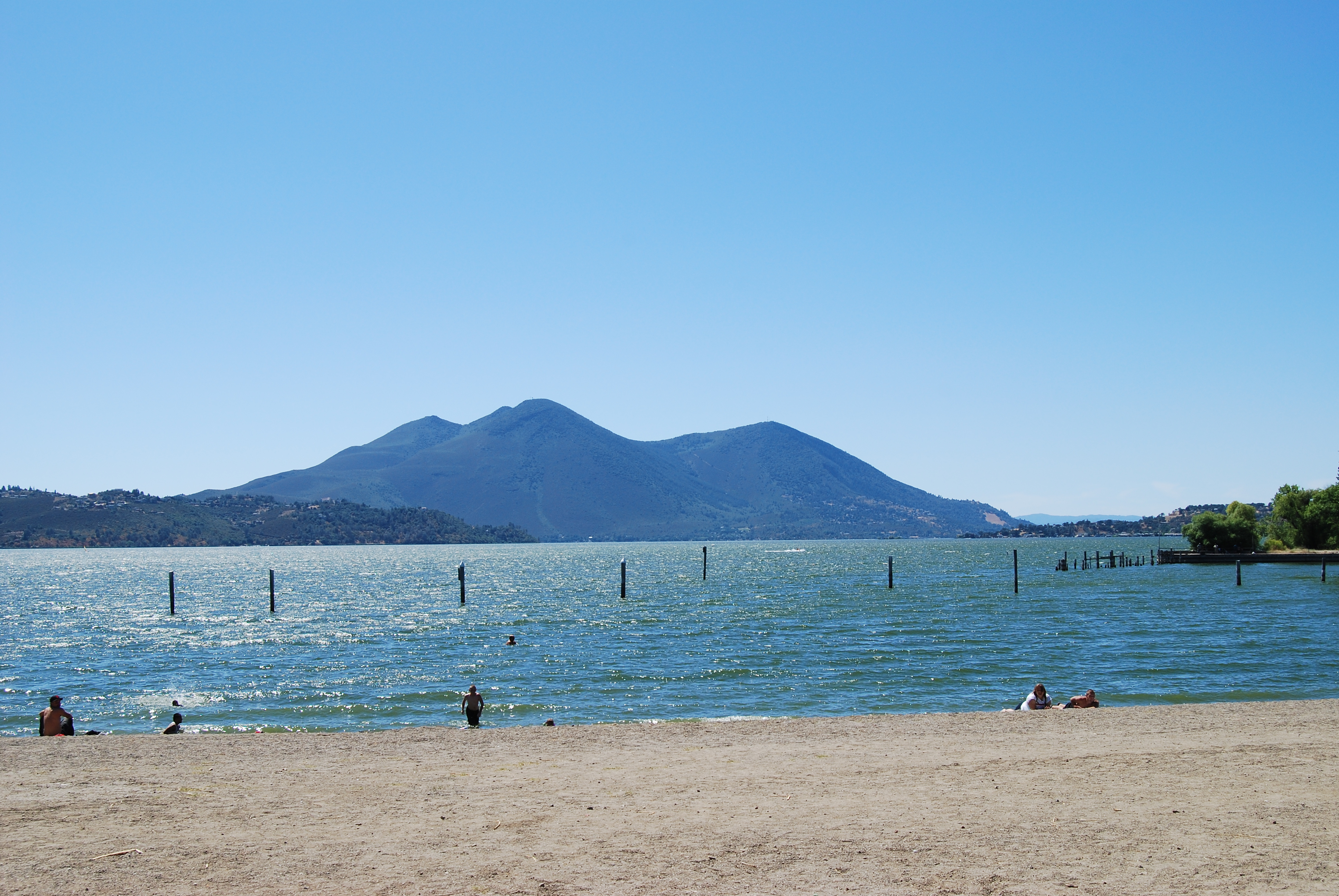 Mount Konocti and Clear Lake, in Lake County, northern California.